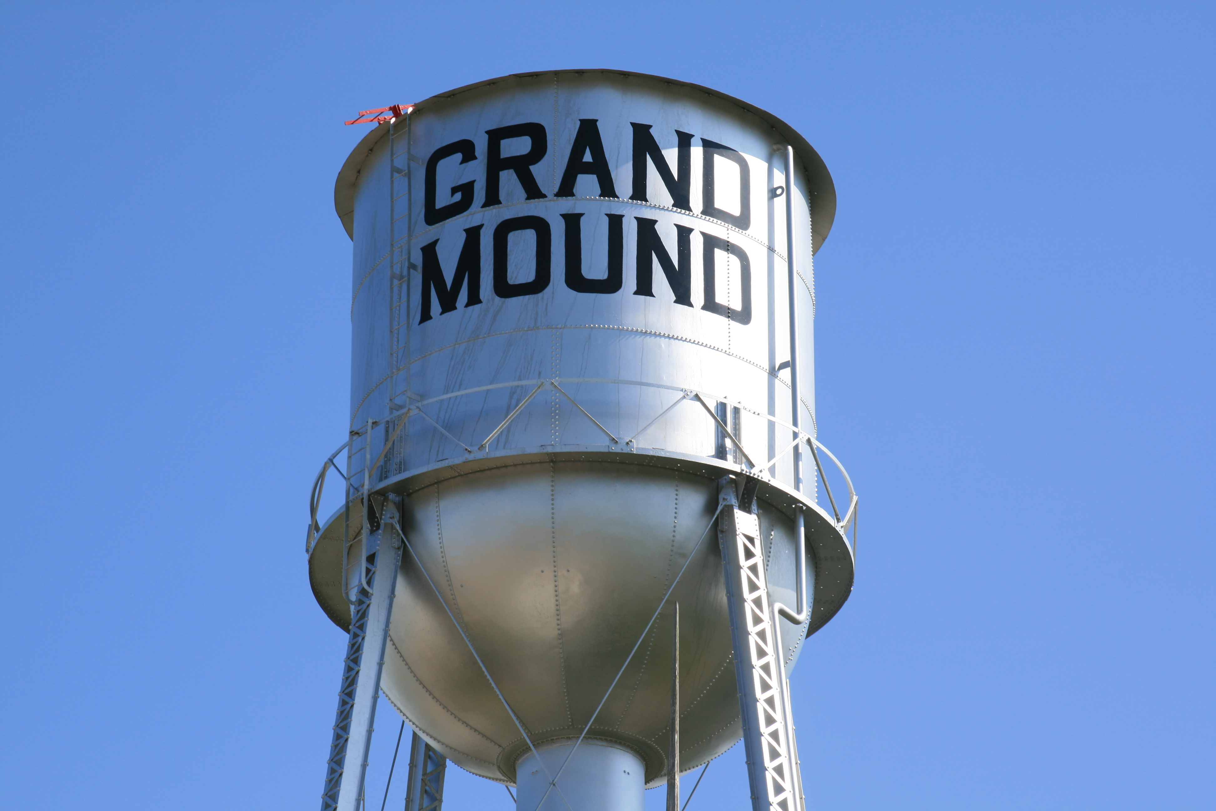 Close up of the water tower for Grand Mound, Iowa